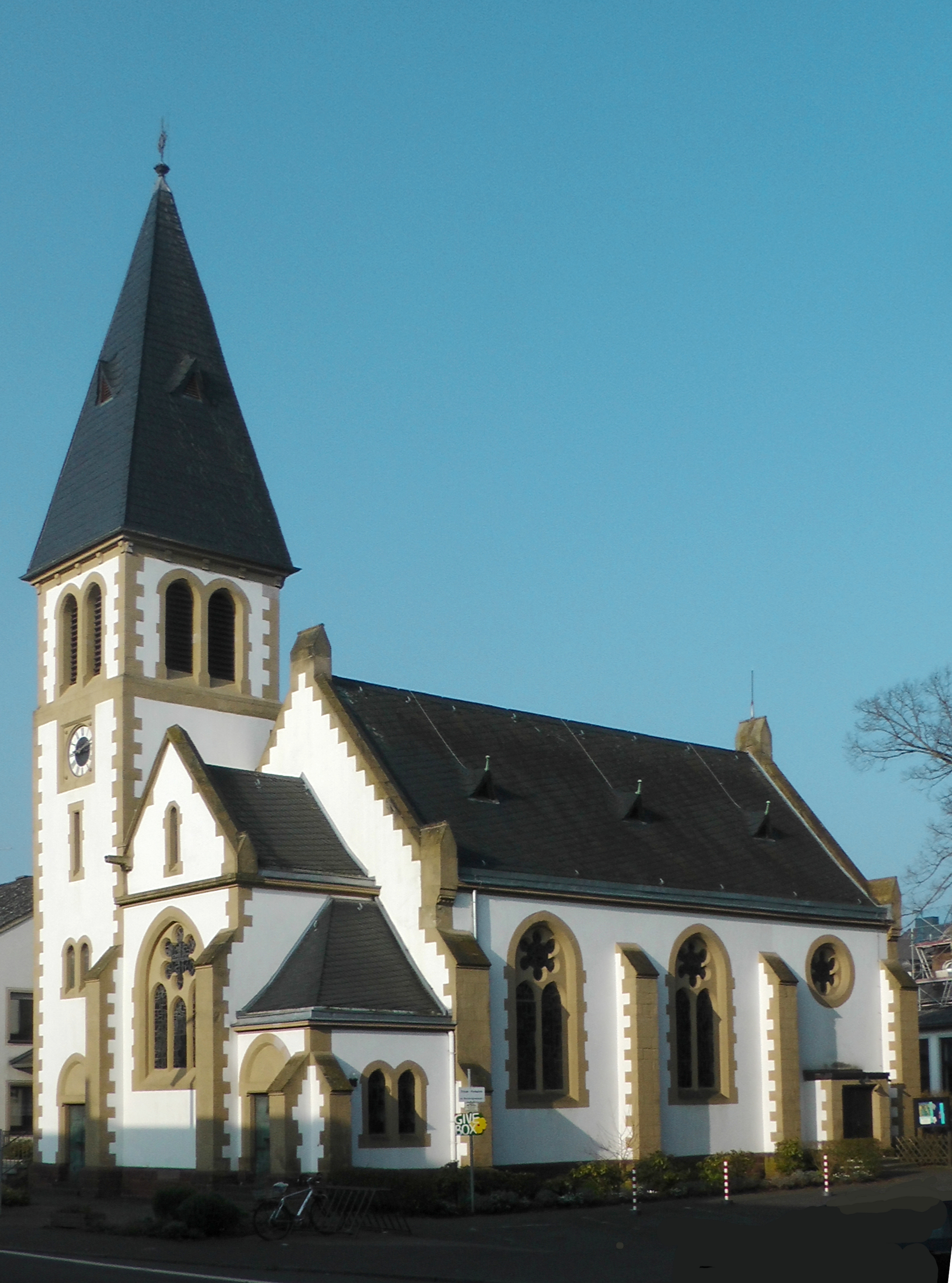 Protestant Church Konz-Karthaus